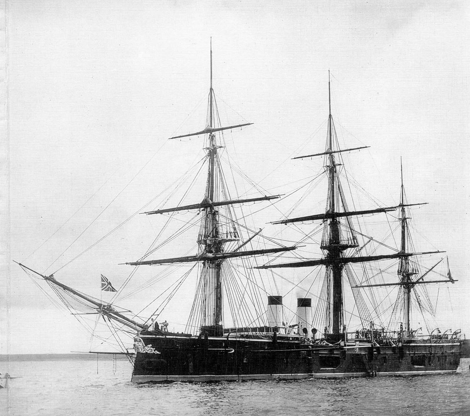 Imperial Russian armoured cruiser Kniaz' Pozharskii.